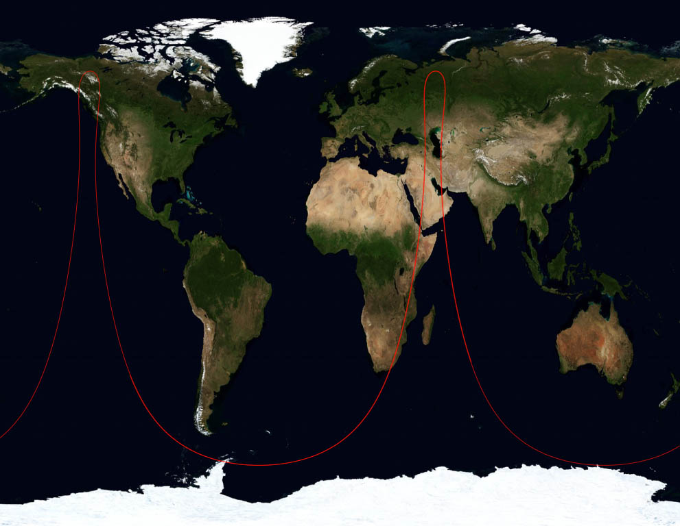 Ground track of Russian satellite Kosmos 2430. Plotted against a PD NASA map using GPL gpredict software.